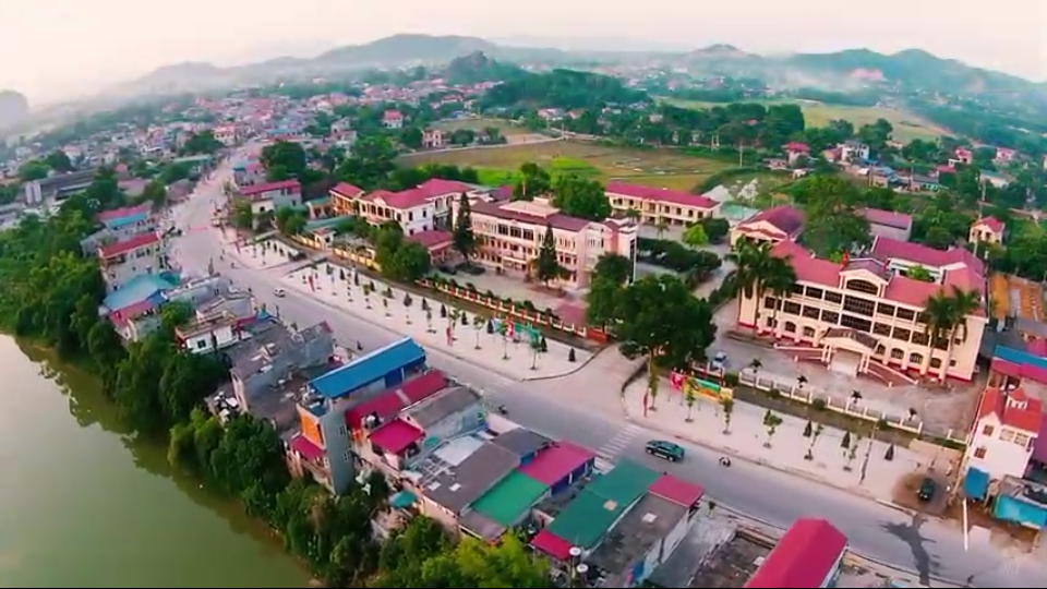 Trụ sở UBND huyện Đồng Hỷ